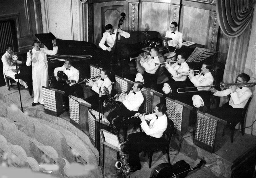 Arne Hülphers' Orchestra at the Fenix-Kronprinsen Restaurant, Stockholm, autumn 1934